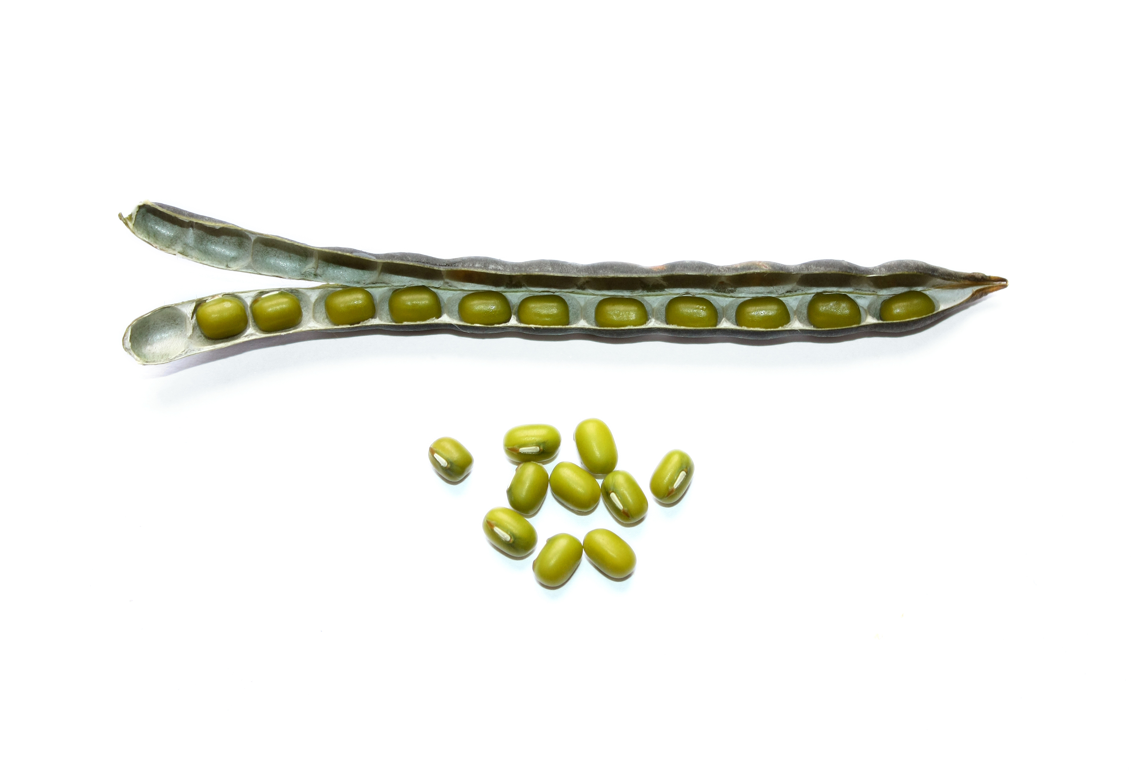 Opened mung bean pod